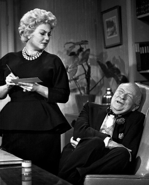 Photo of Ann Southern and Ernest Truex from the television program The Ann Sothern Show. Southern played the role of an assistant manager of a hotel and Truex played her boss, the hotel manager.